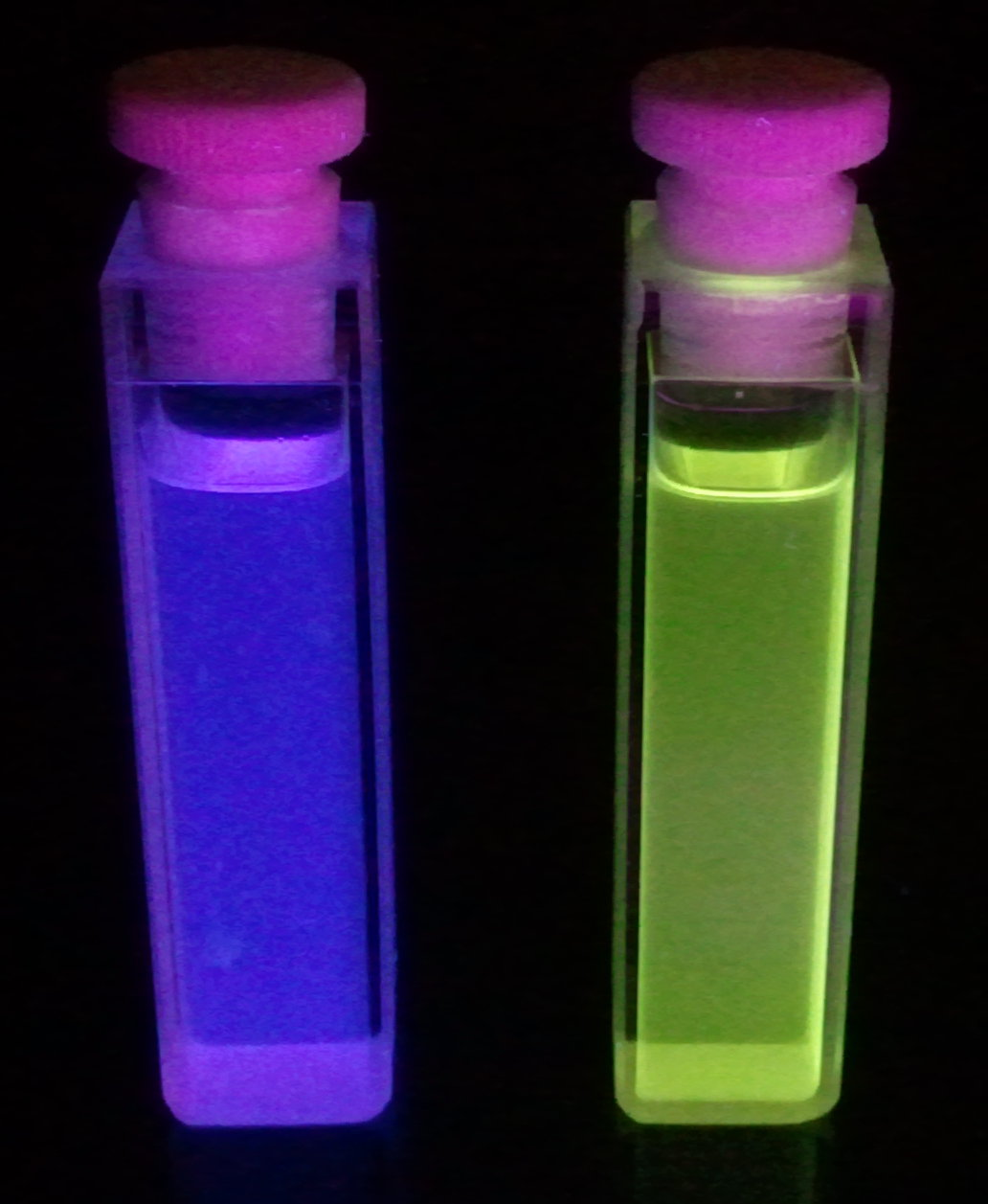 These are two similarly structured luminescent polyfluorenes. They are being excited by 365 nm light while dissolved in chloroform. On the left is File:Polyfluorene with oxadiazole.png and on the right is File:Polyfluorene with ESIPT.png.